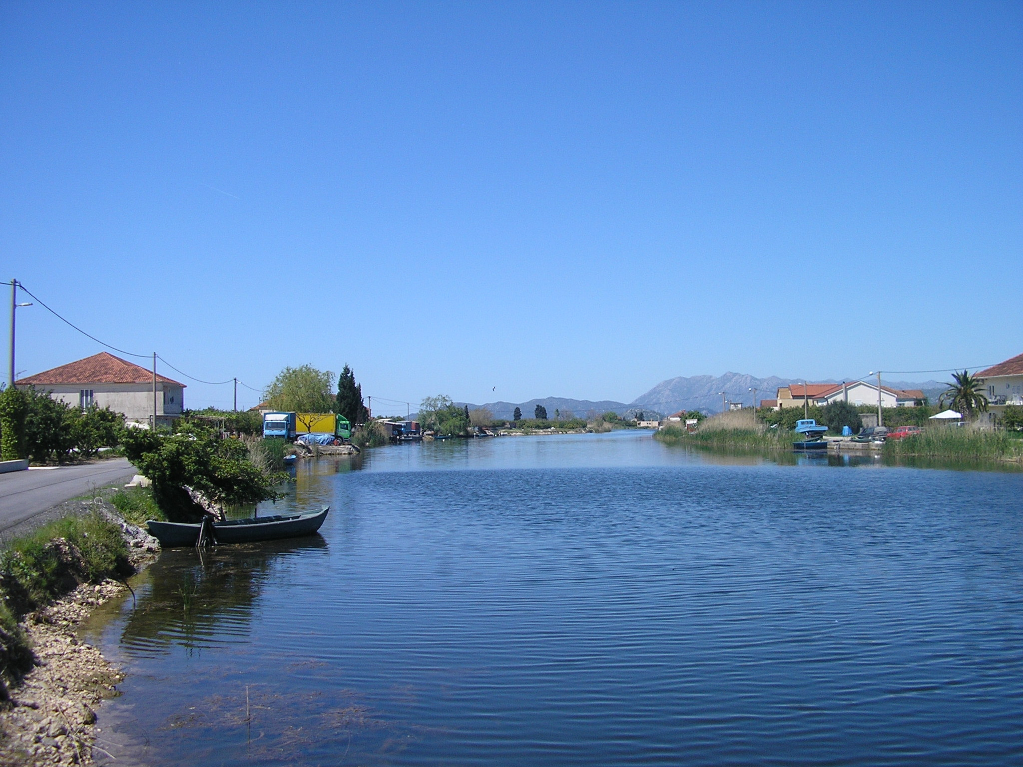 Vlaka (left), Mala Neretva river, Buk Vlaka (right)